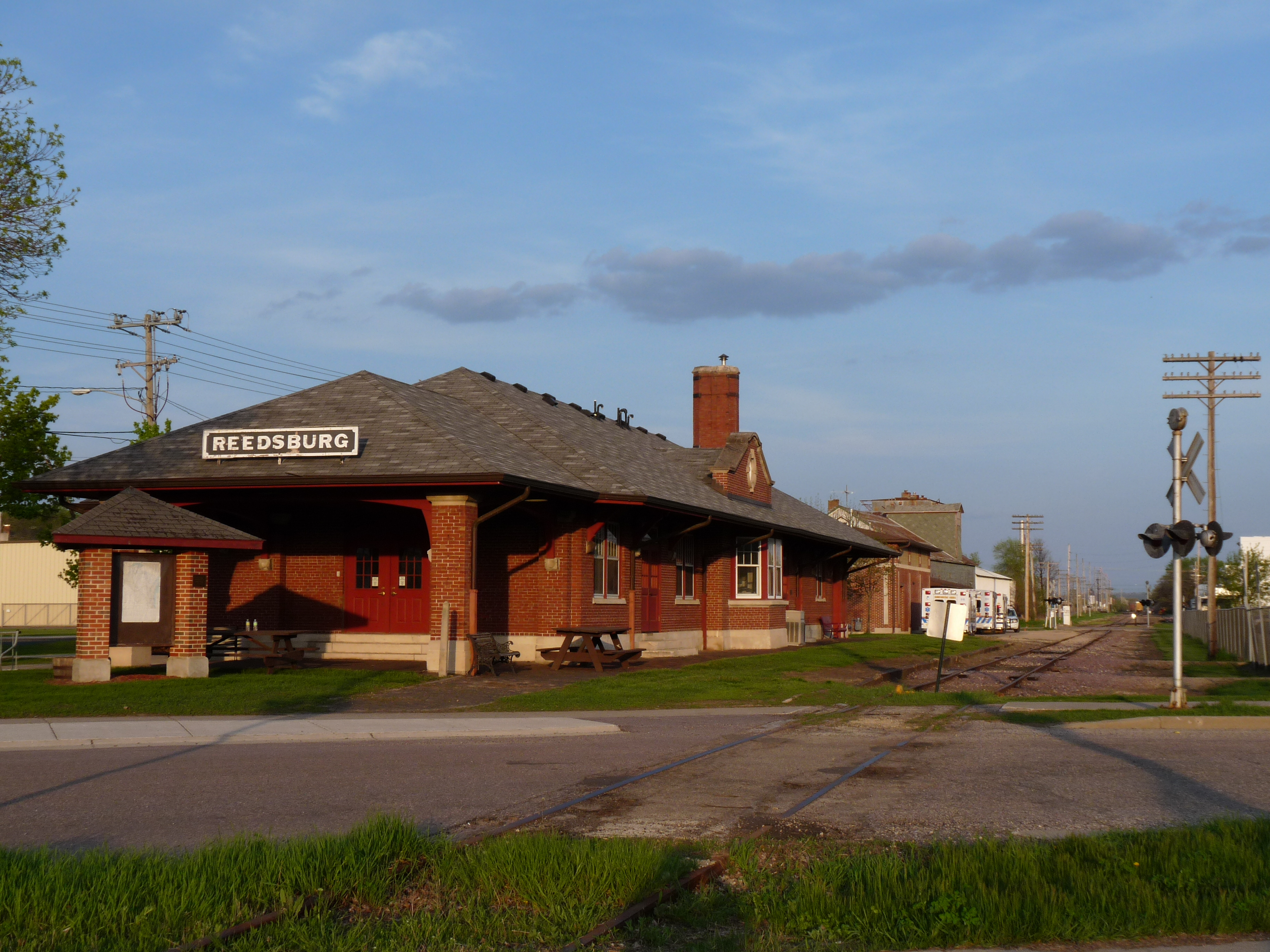 Brick depot of the Chicago and North Western Railway in Reedsburg, Wisconsin, built in 1905. Listed on the National Register of Historic Places in 1984.